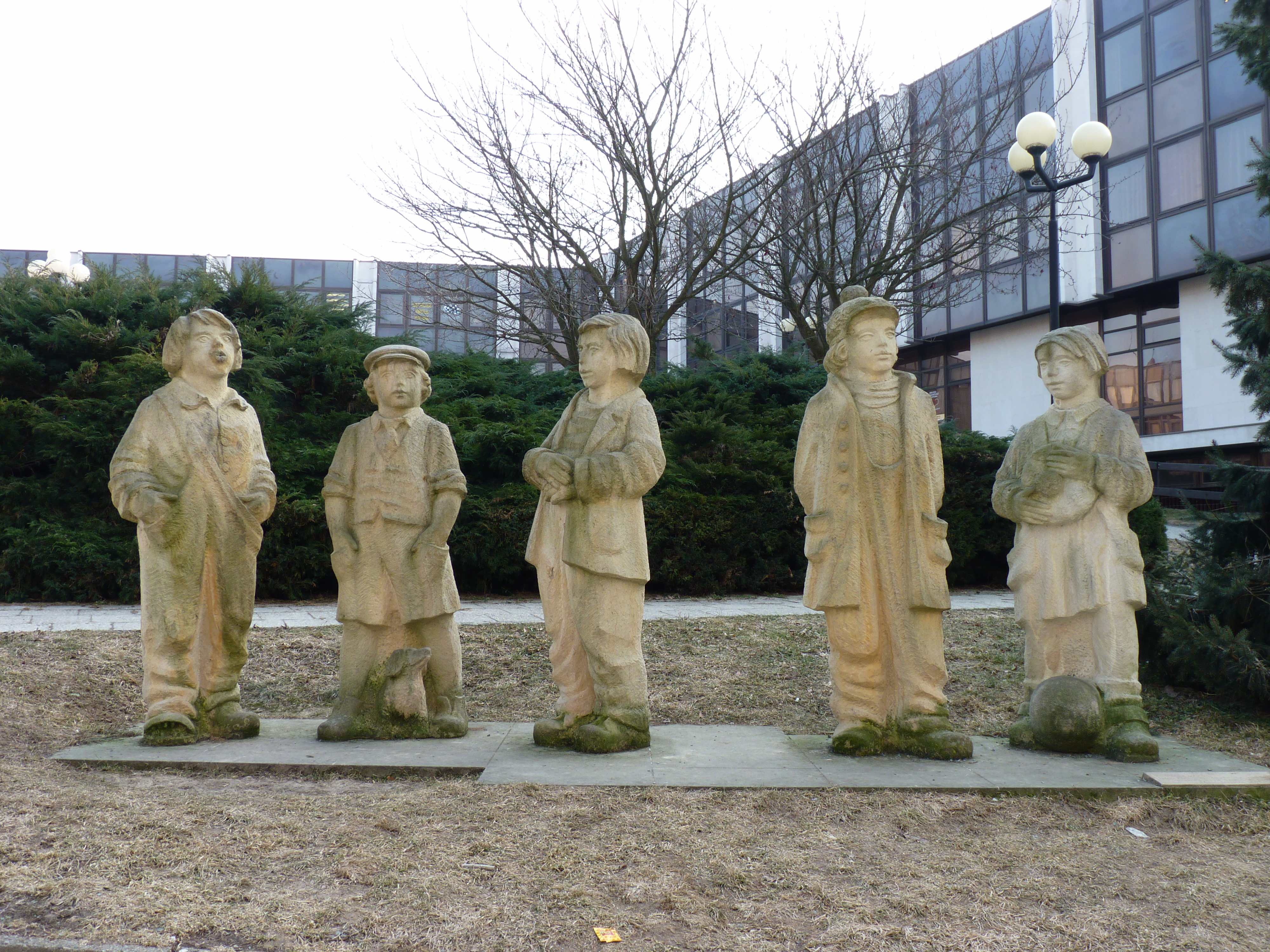 Statue from Rychnov nad Kněžnou city